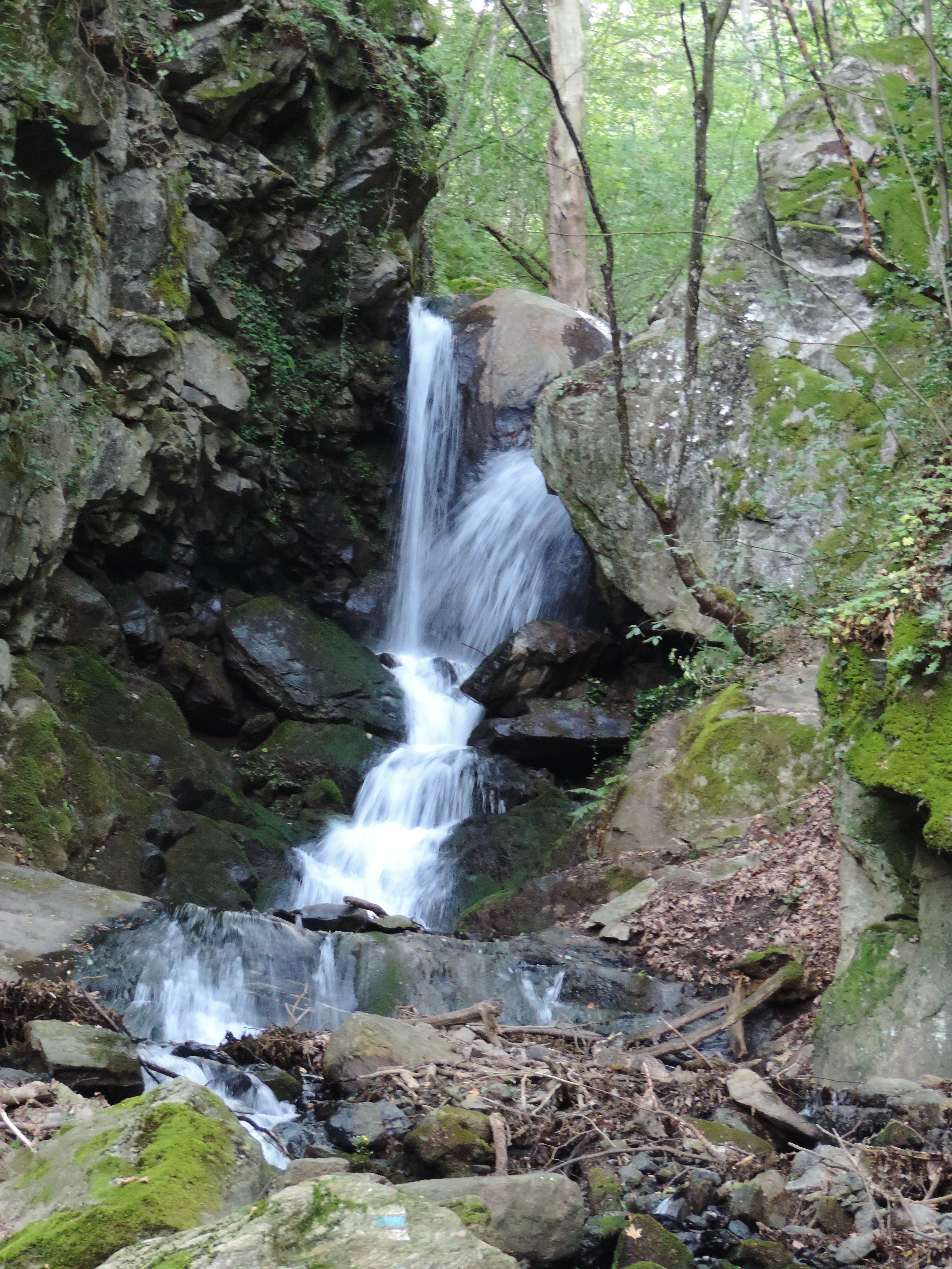 Yavornishki waterfall, Belasitsa, Bulgaria